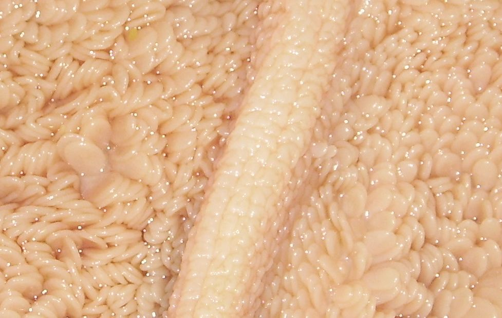 mucosa of a sheep rumen